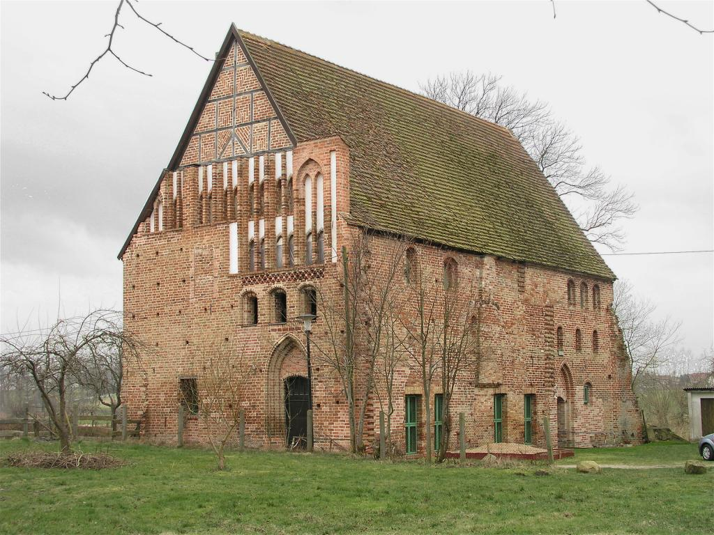 Tempzin, Mecklenburg, Germany: warmhouse of the monastery , photo 2007